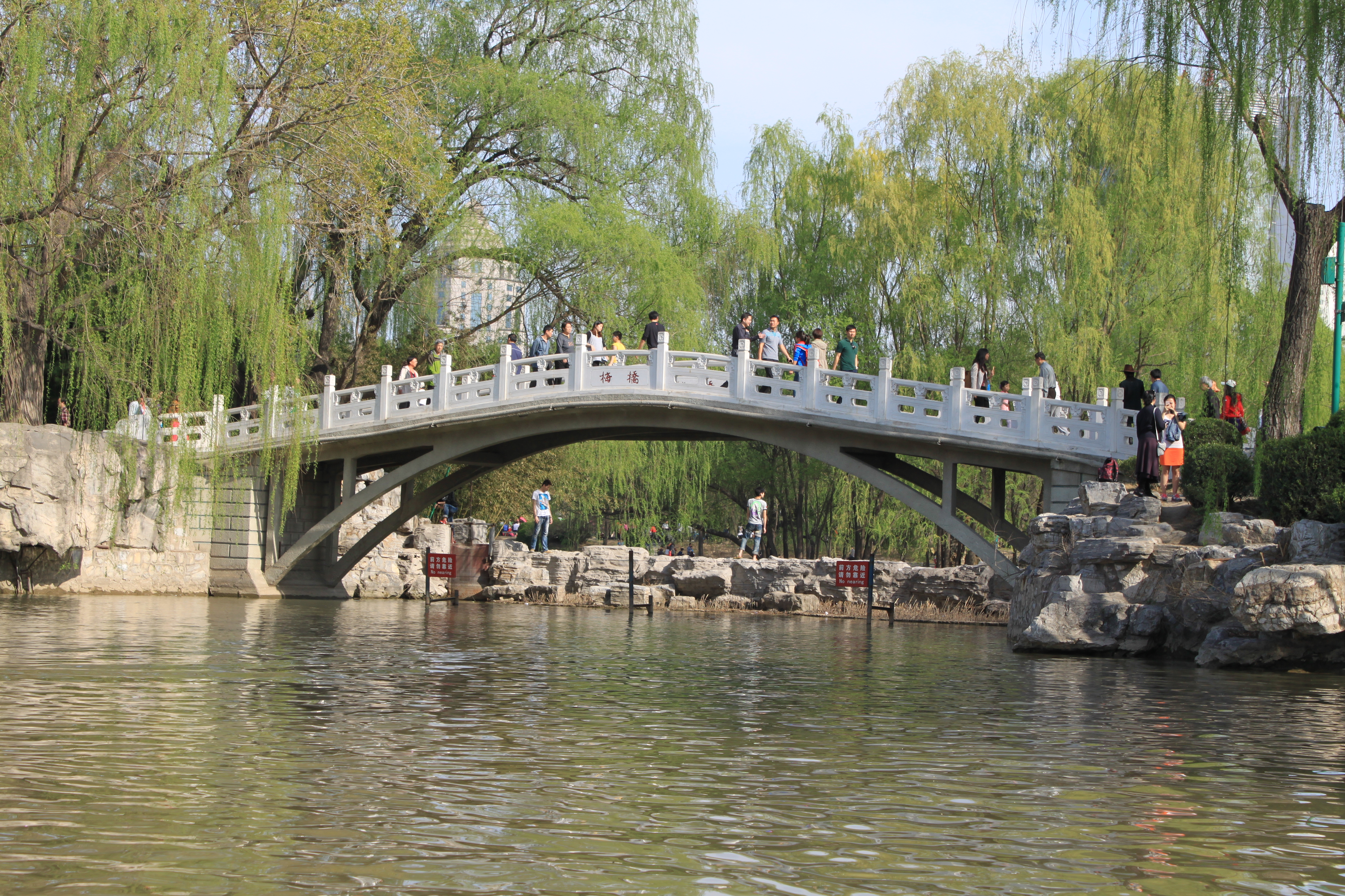 Zizhuyuan Park- plum bridge